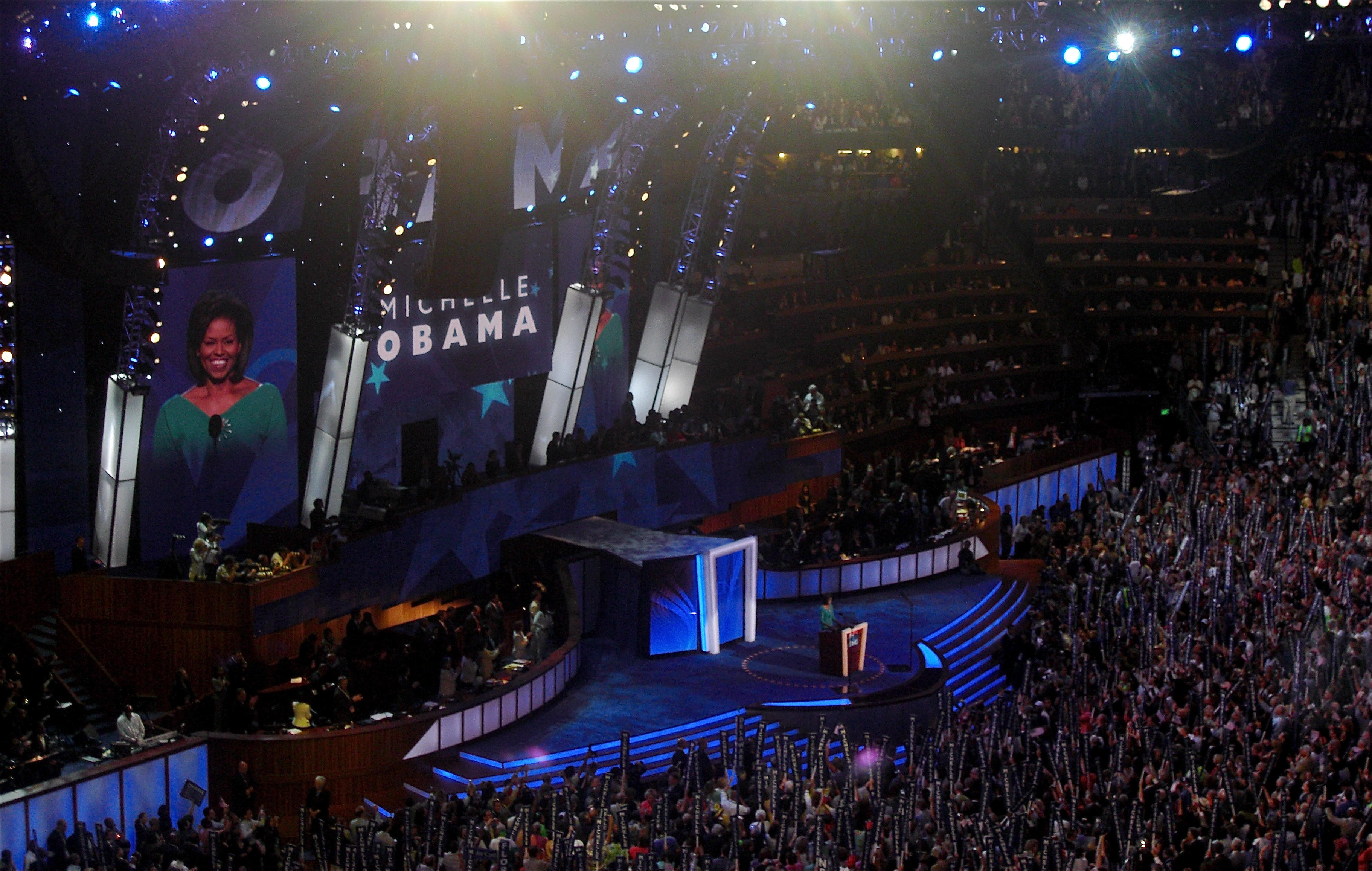 Michelle Obama speaks during the first night of the w:2008 Democratic National Convention in Denver, Colorado, United States.